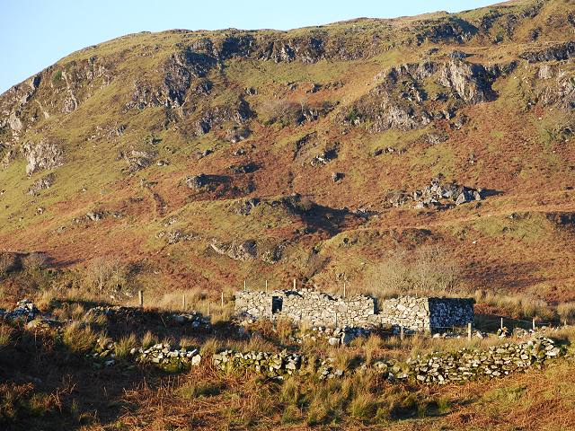 Ruined sheiling A well-preserved house high in the glen above Kilmelford. There were several sheilings in Gleann Mòr, but this is the best-preserved structure.